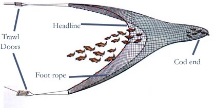 Structure of a bottom trawl